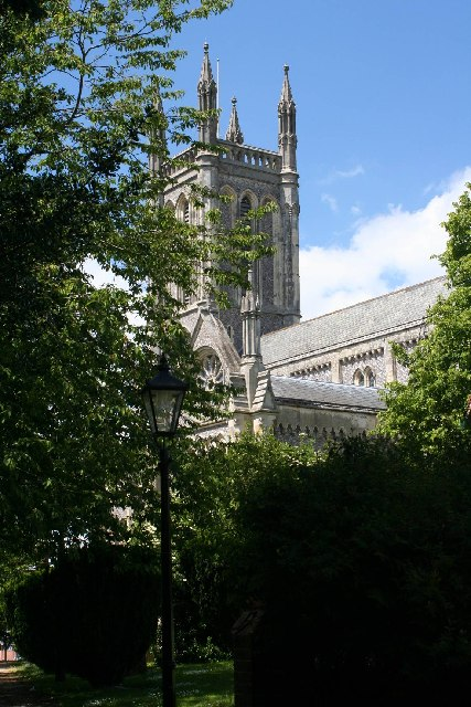 St Mary's Church, Andover. 19th century church built on top of demolished mediaeval church. Contains 2 Jacobean wall tombs within (1611 & 1621).